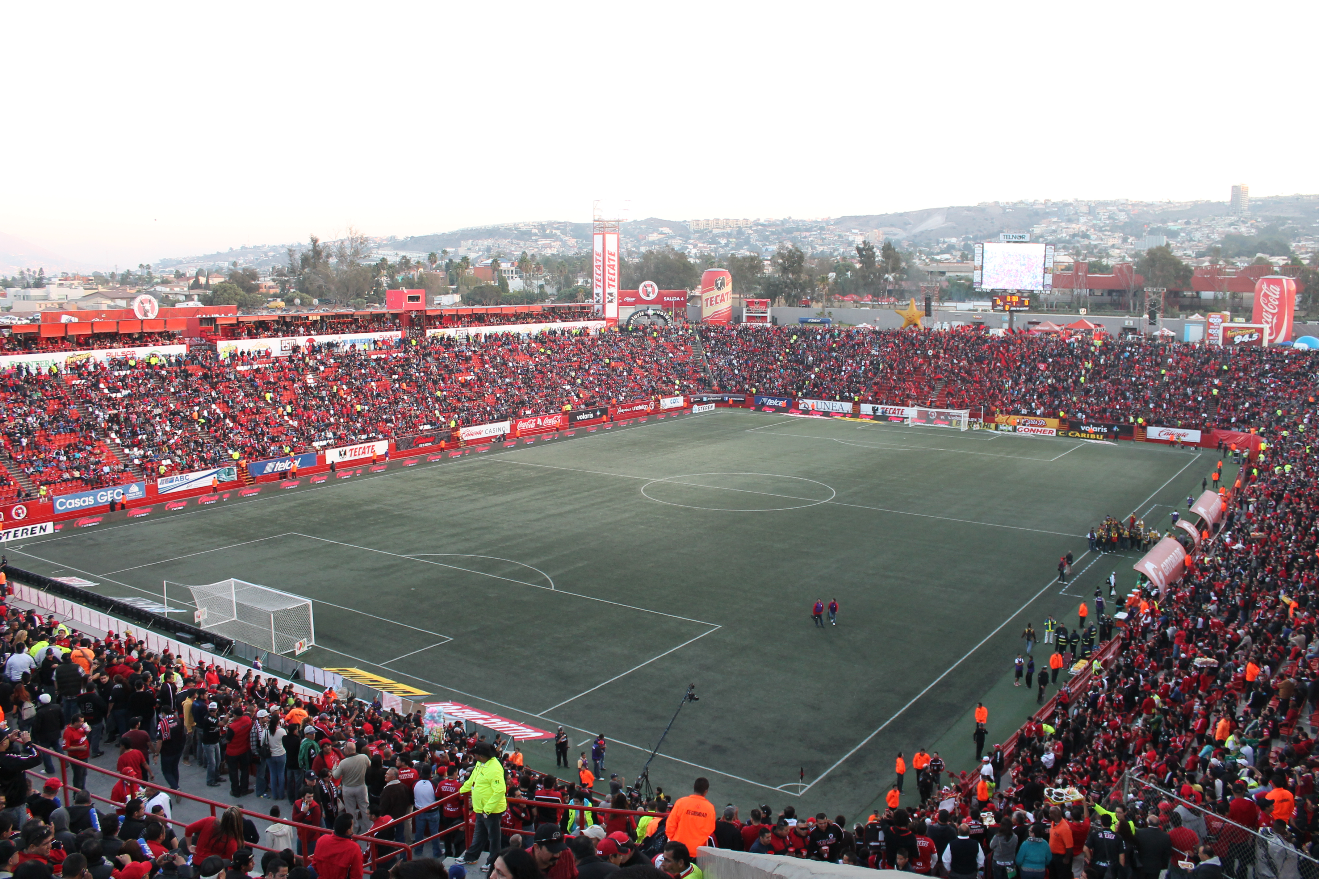 Stadium in semi-final match game.